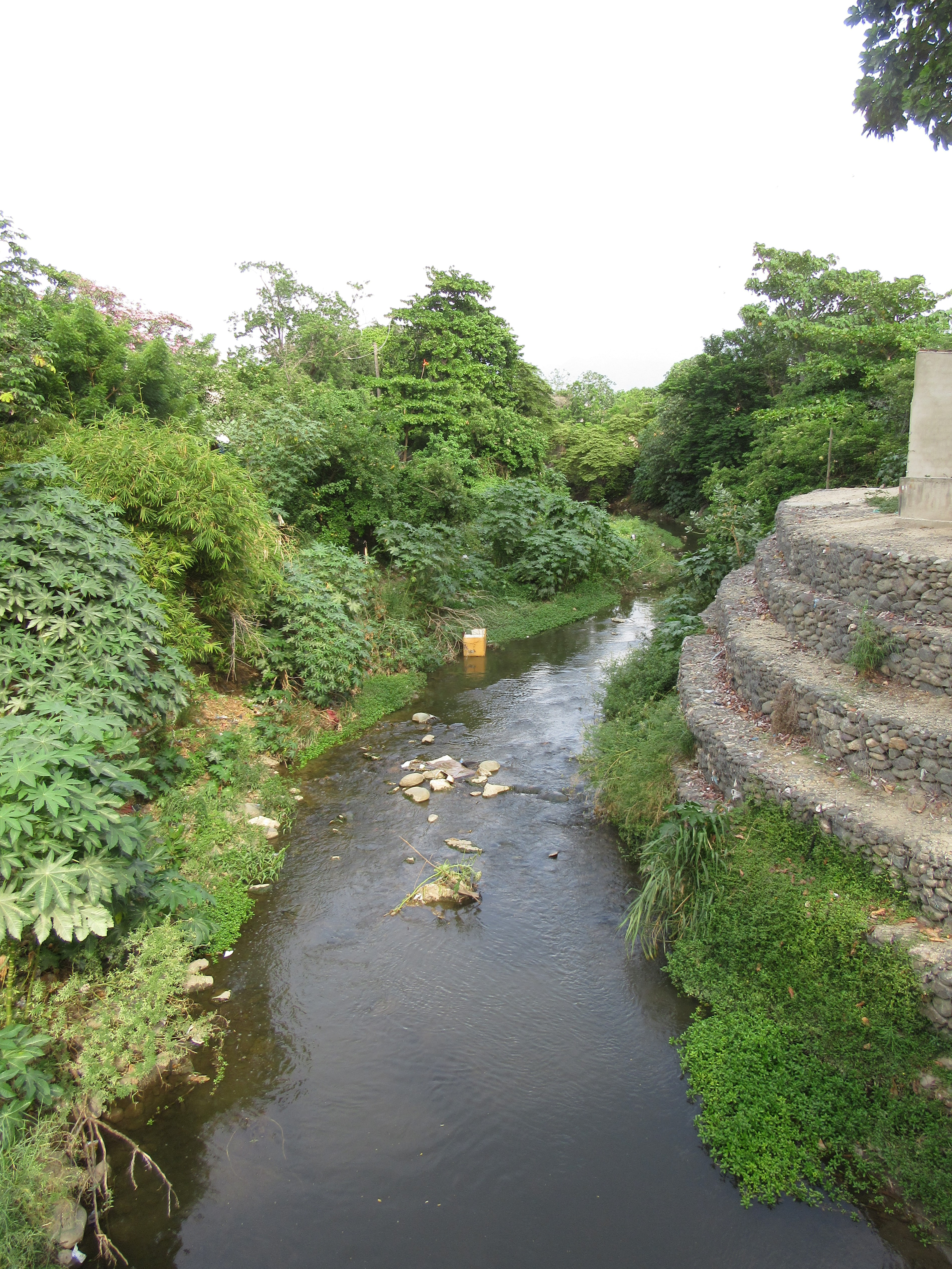 Santa Marta